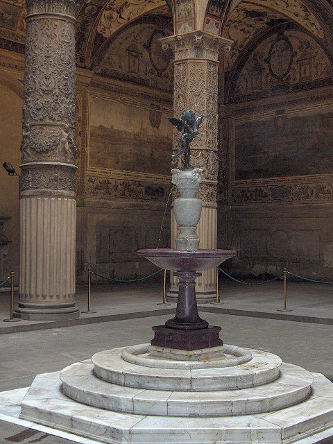 Porphyry basin in the courtyard with (a copy of) "Boy with a Fish" by Verrocchio (1476); Palazzo Vecchio, Florence, Italy Own photo - photo made on 13 October 2005